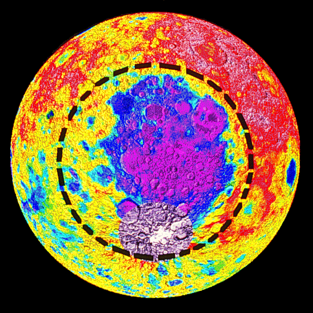 This image is an elevation map of the South Pole-Aitken basin on the Moon, derived from data collected by the NASA/SDIO probe Clementine. [1] establishes that the colors represent elevations, but unfortunately the resolution is too low for me to make out what numbers go with what hues.